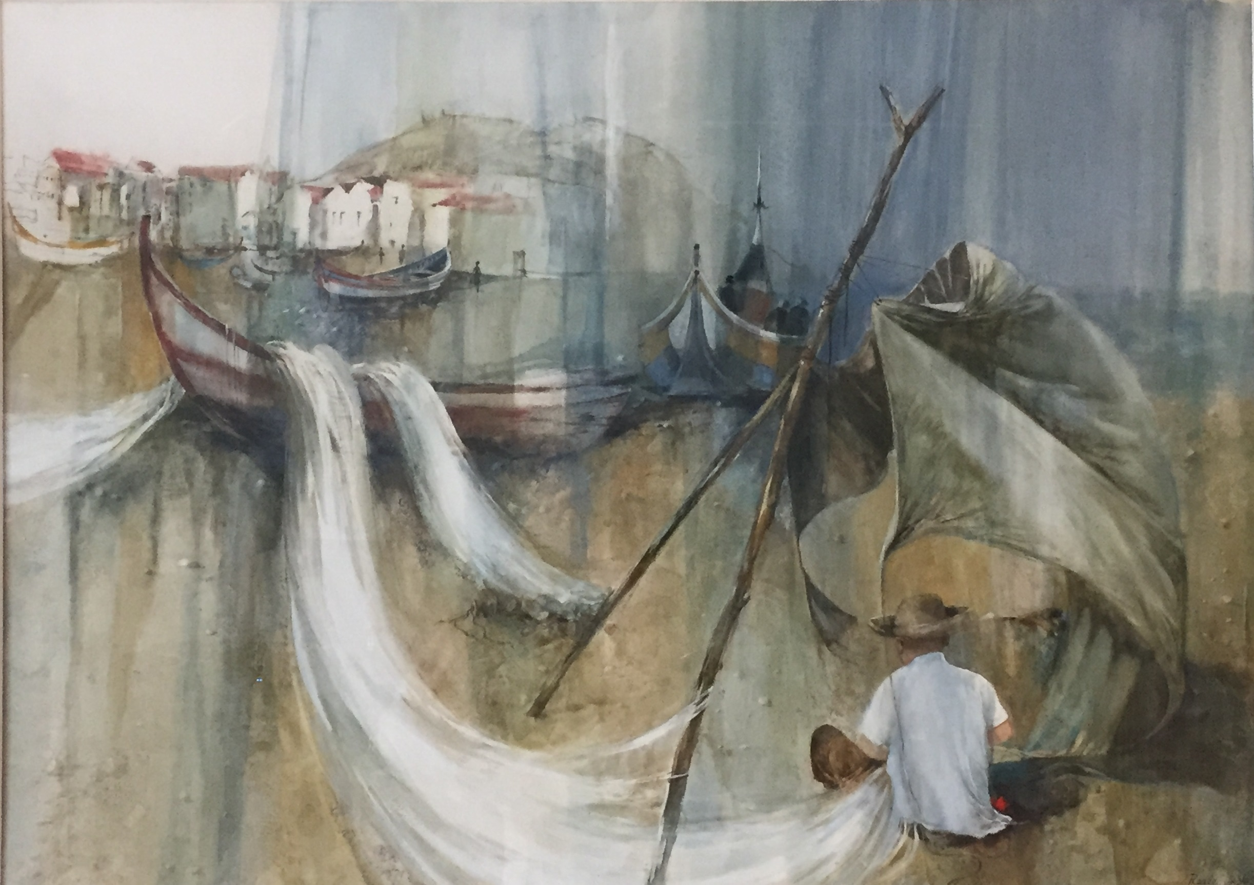 Original watercolor painted by Nicholas Reale (1922-1984), now owned by Nancy Reale Gifford, his daughter, who is married to John Humphreys (johnnydogmatic) This painting received the New Jersey Watercolor Society Silver Medal of Honor in 1971. We (Nancy Reale Gifford and John Humphreys) own the painting and John Humphreys photographed it today (2018-1-4) for this upload.